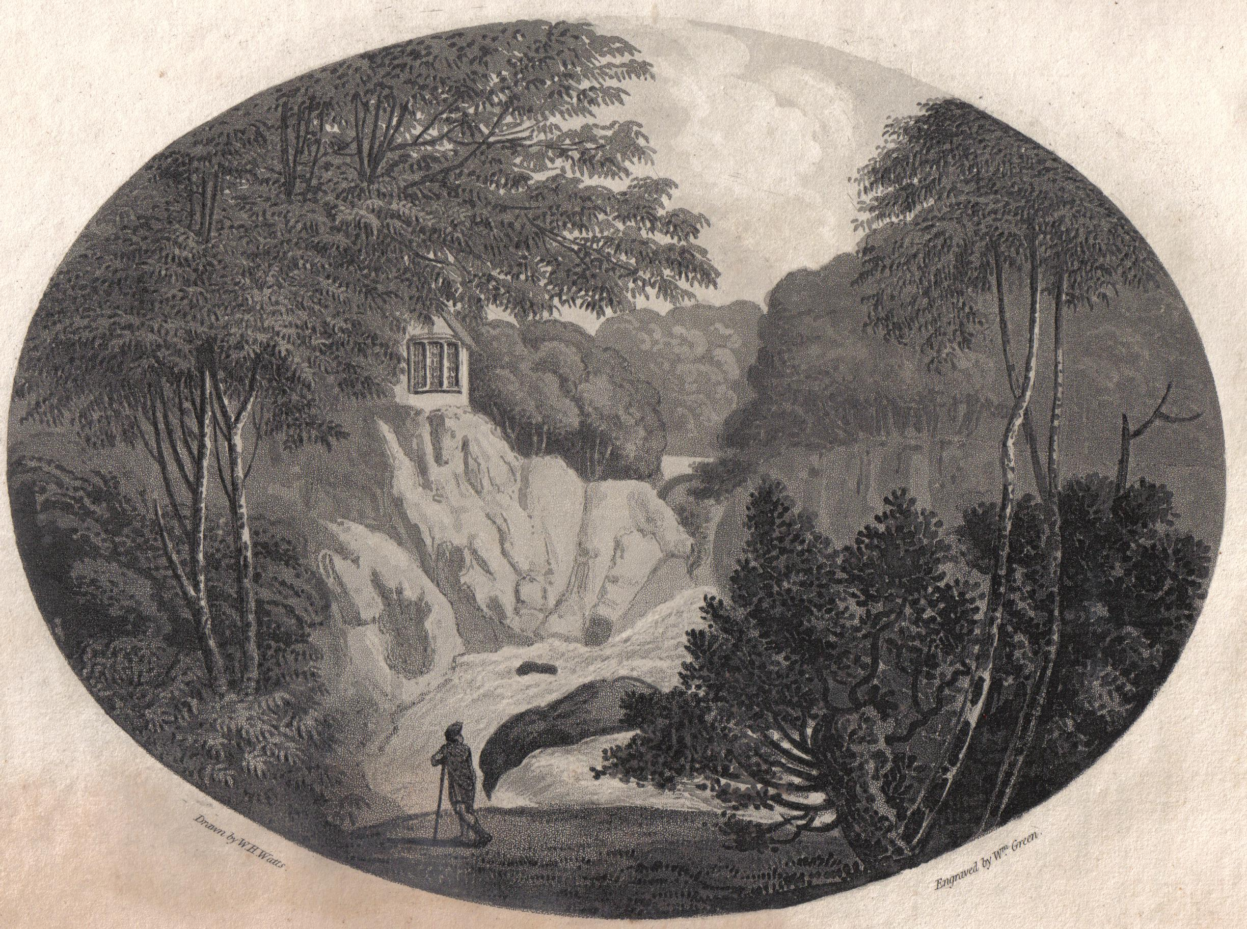 Ossian's Hall at the hermitage, Dunkeld, Scotland in 1800. From Garnett's tour of the Highlands & the Western Isles. 1800.